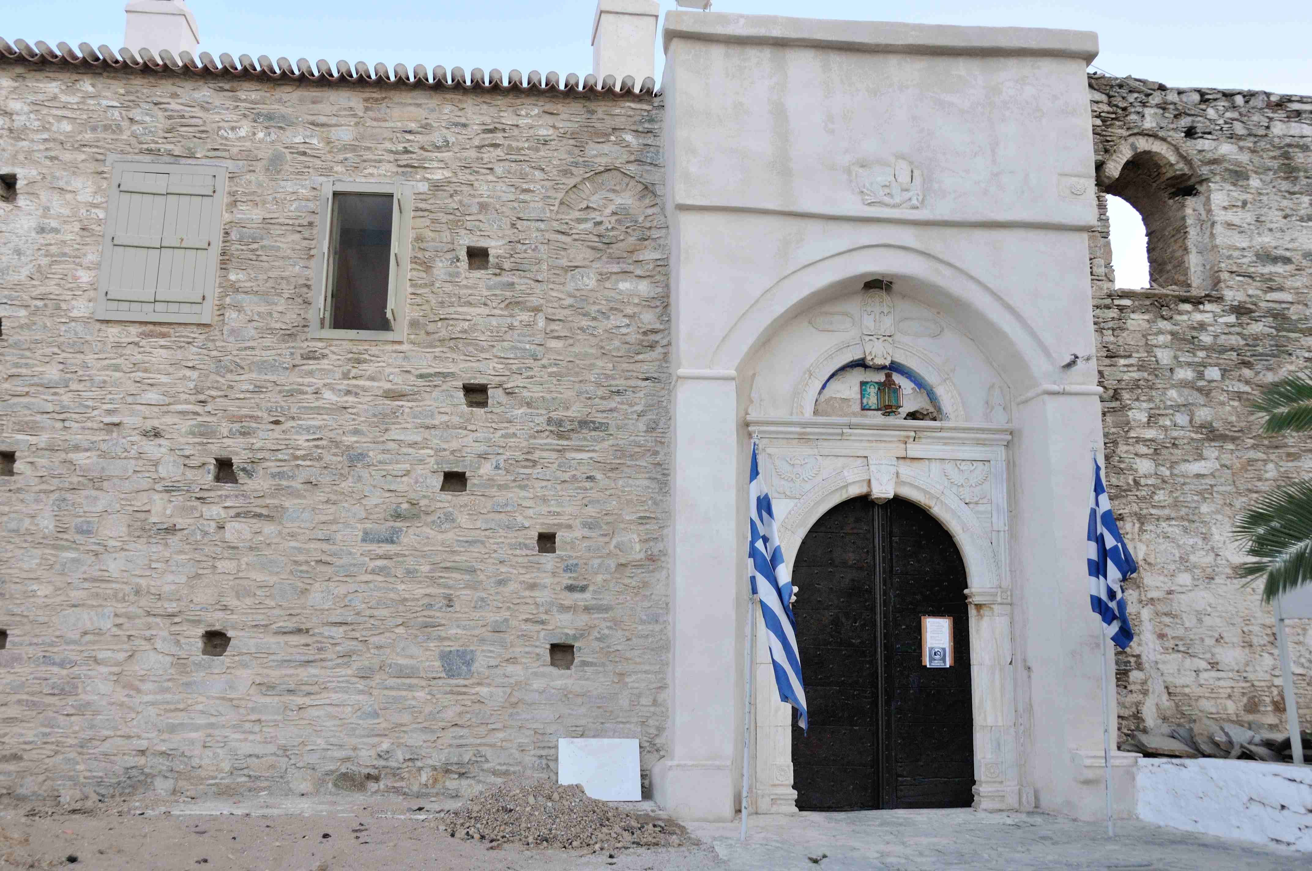 Vronta monastery Entrance, Samos, Greece